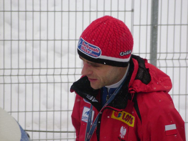 ski jumper Robert Mateja from Poland during the World Cup in Zakopane on 27-1-2008